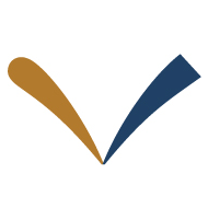 This is mark of Kyoto Institute of Technology. This Mark means art and great personality.